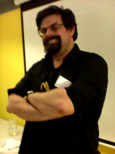 Adrian Tchaikovsky at Edge Lit 4.jpg